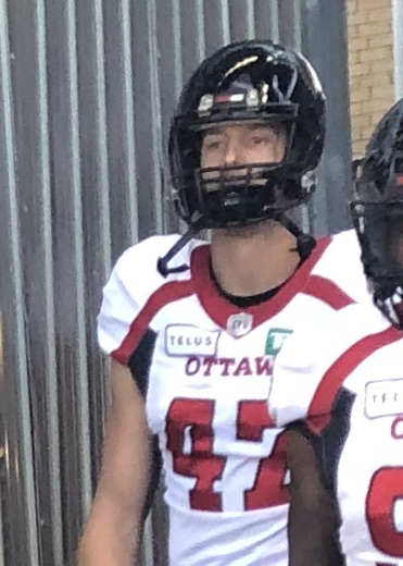 Nigel Romick, defensive lineman for the Ottawa Redblacks.